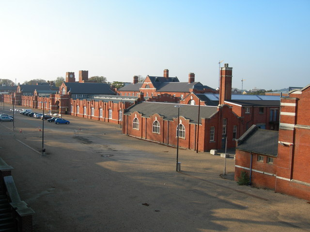 Parade Ground, University of Greenwich Also showing various buildings nearby. The Drill Hall Library is the one on the left. This was all once part of the Royal Naval Barracks, HMS Pembroke. It is now part of the University of Greenwich. The building was completed around 1902.